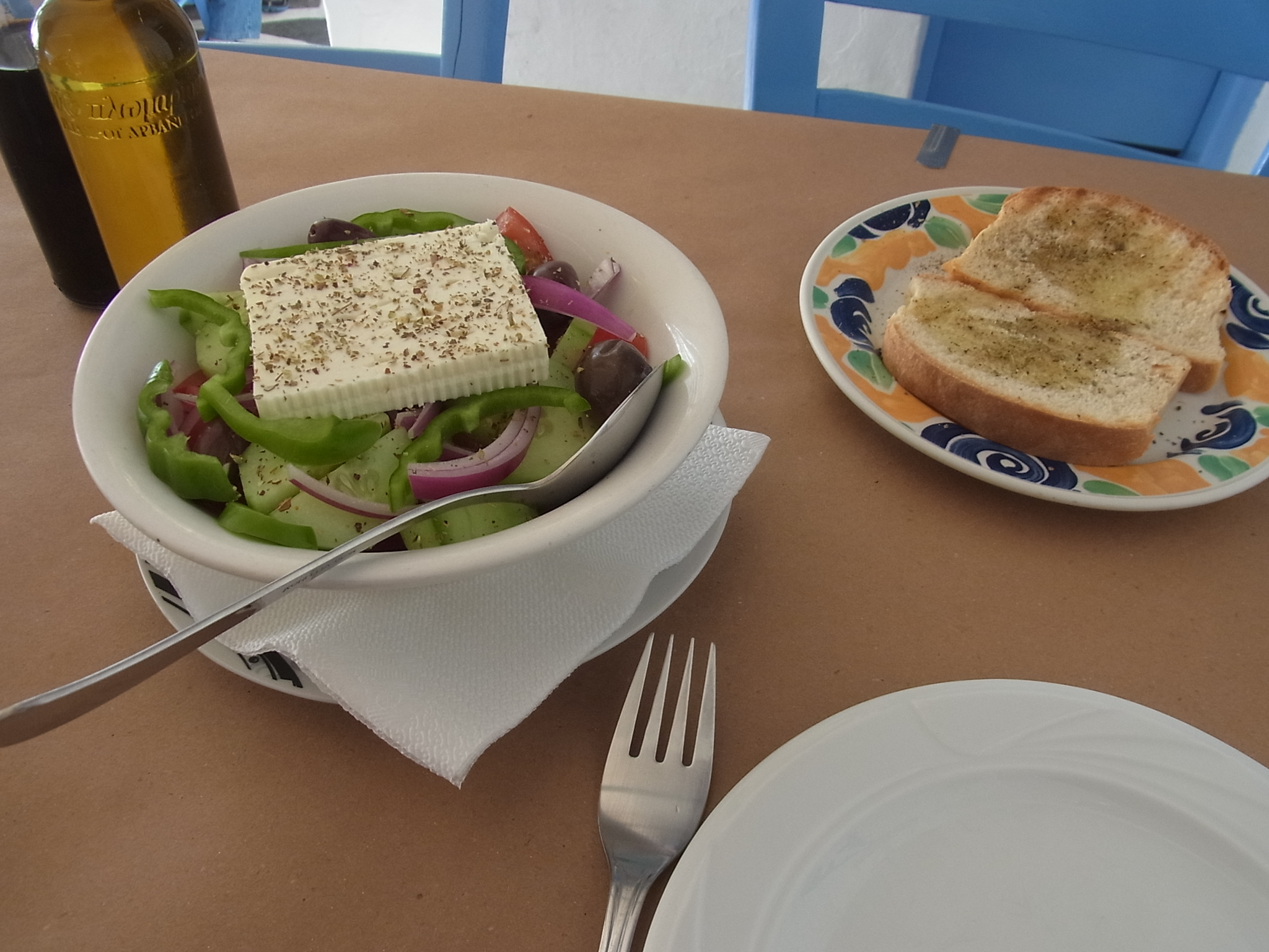 greek cuisine